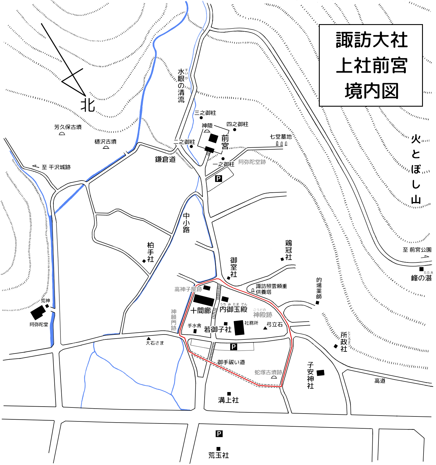 Map of Suwa Taisha Kamisha Maemiya, Chino, Nagano